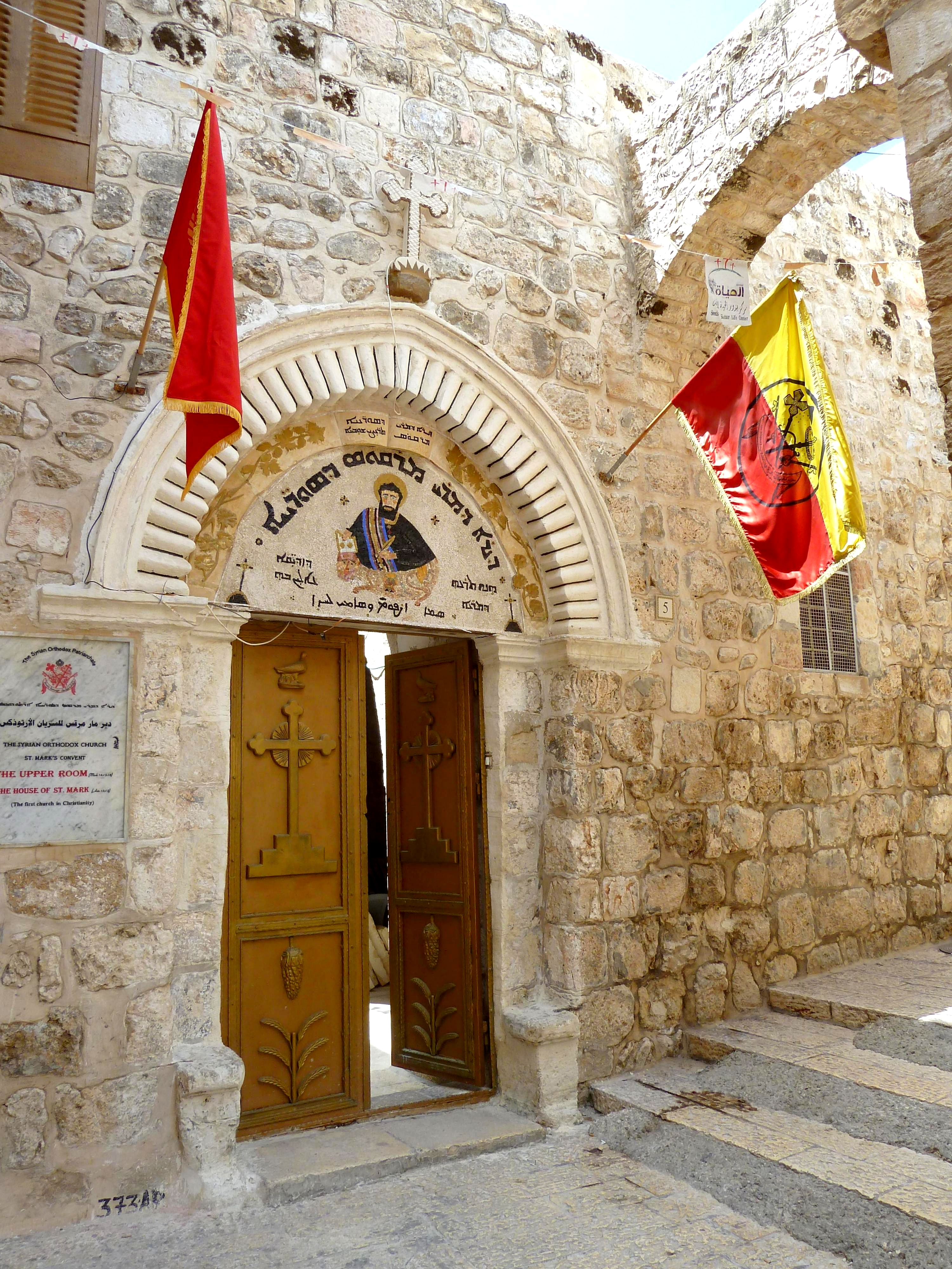 Old Jerusalem, Ararat road 5, St. Mark Church with flag